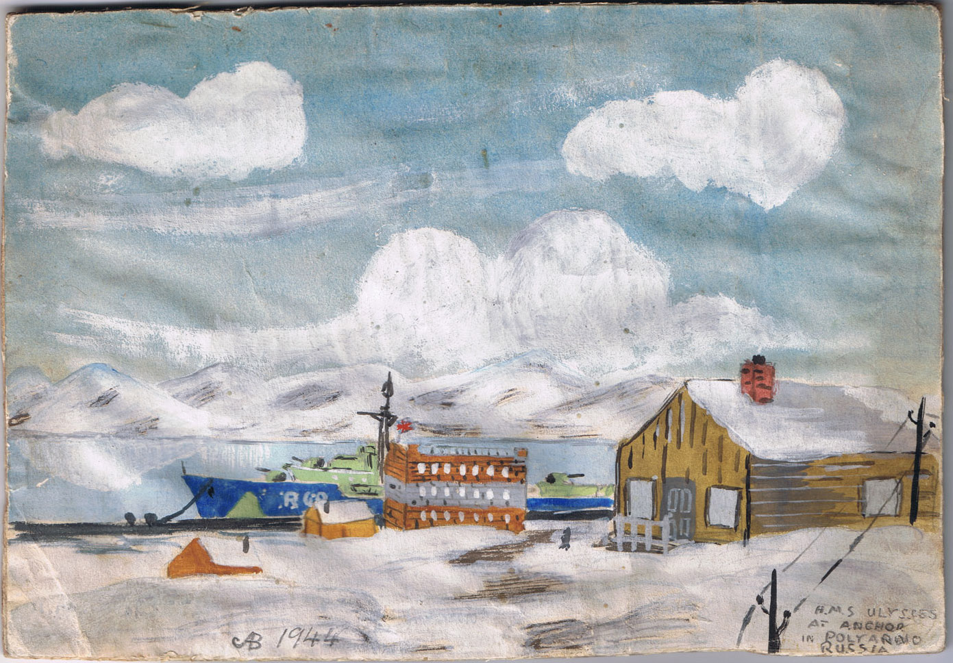 Watercolour of HMS Ulysses by Arnold Barlow, May 1944. "Polyarno" (Polyarny), Russia. Barlow was 19 years old, and an Officers' Cook